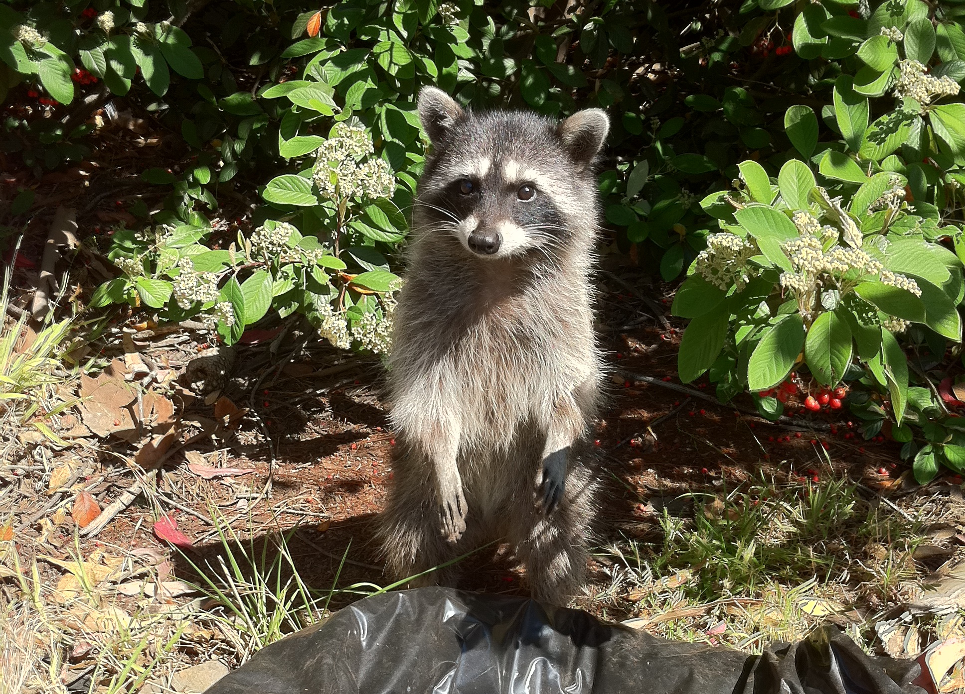 Raccoon standing, expecting me to throw food at him. Taken in the backyard of my house.